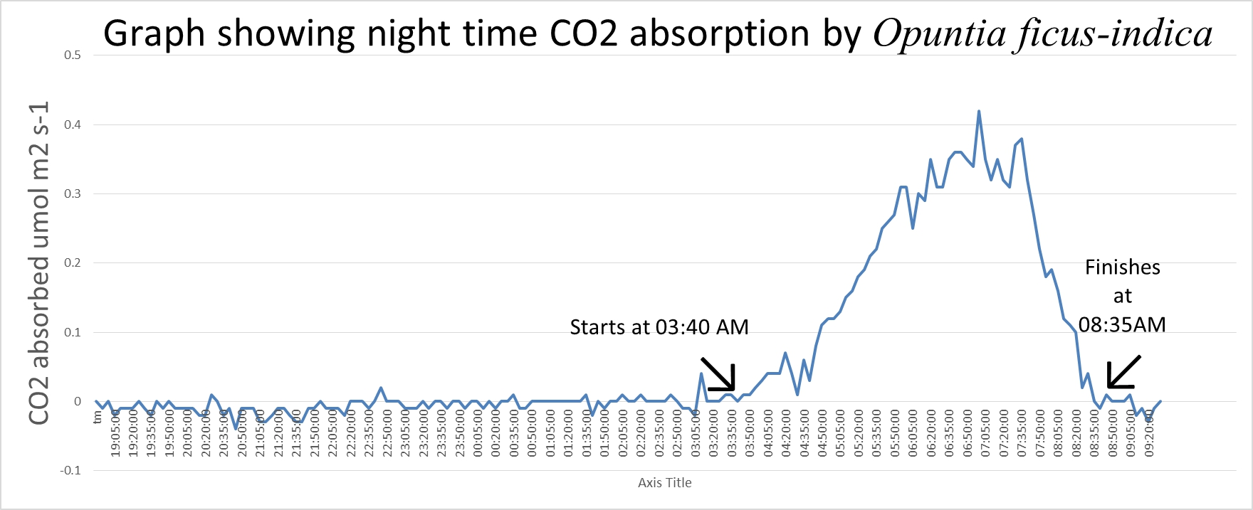 Graph showing CO2 absorbed by a CAM plant overnight.